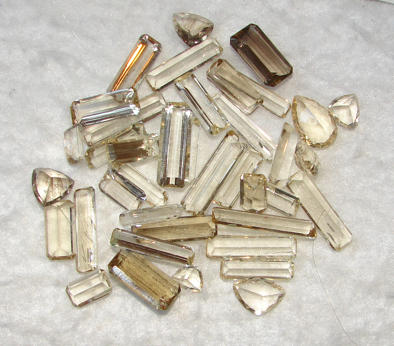 Scapolite cut from Brazil. Gem cutting by Afonso Marques.